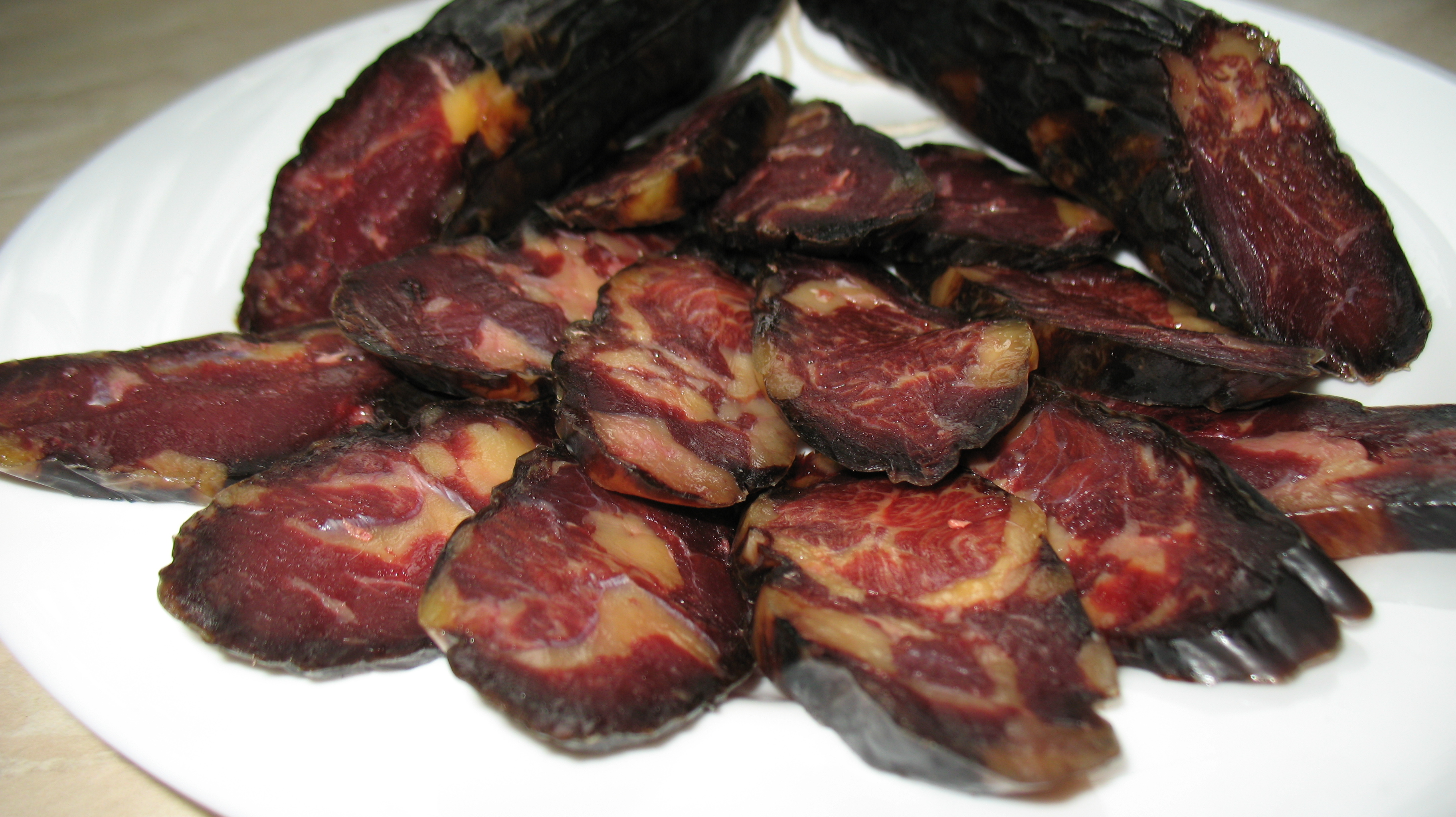 Mahan - a traditional sausage made from horsemeat from the Tatars and some Turkic peoples. In many regions and cities of Ukraine with the multi-ethnic population, mahan - the coveted delicacy in the international holiday menu.